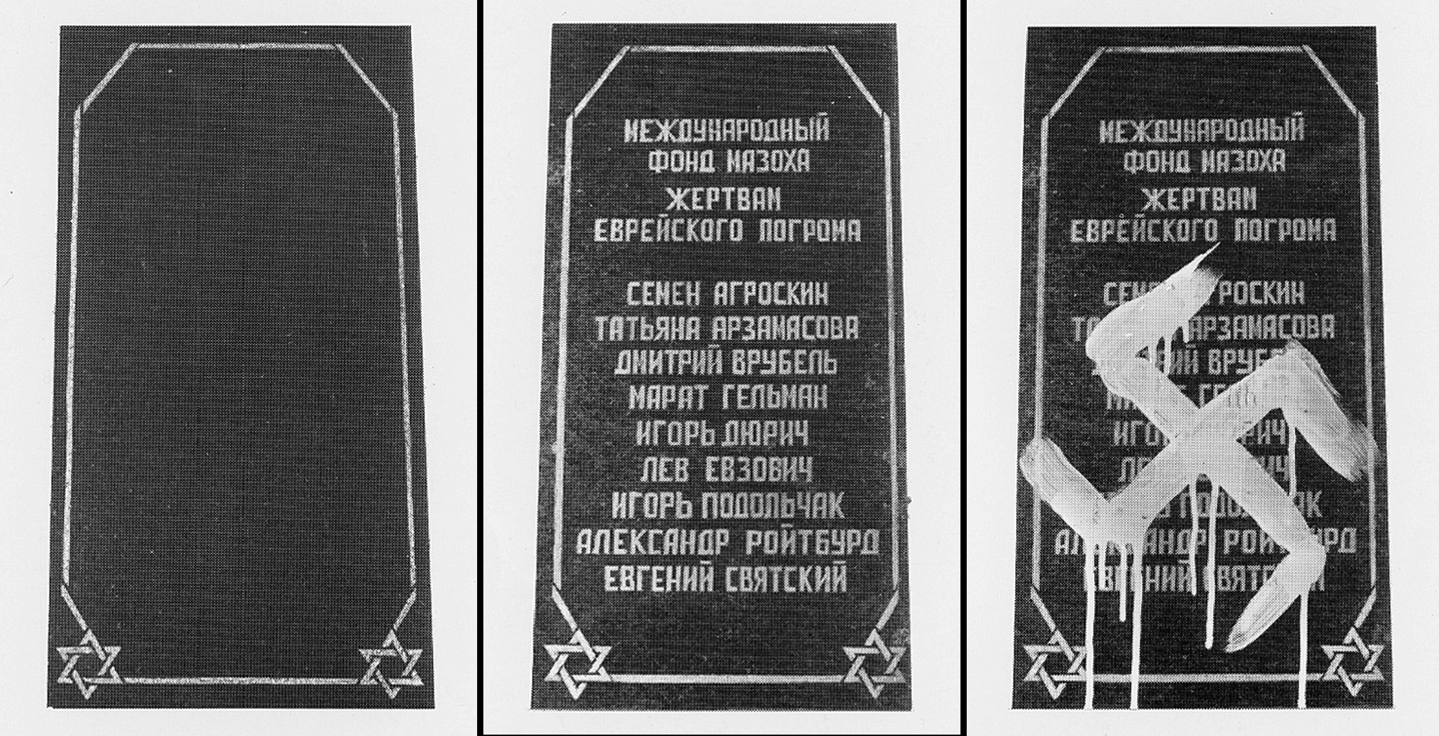 Art objects from Masoch Fund action in Guelman Gallery, Moscow, 1995